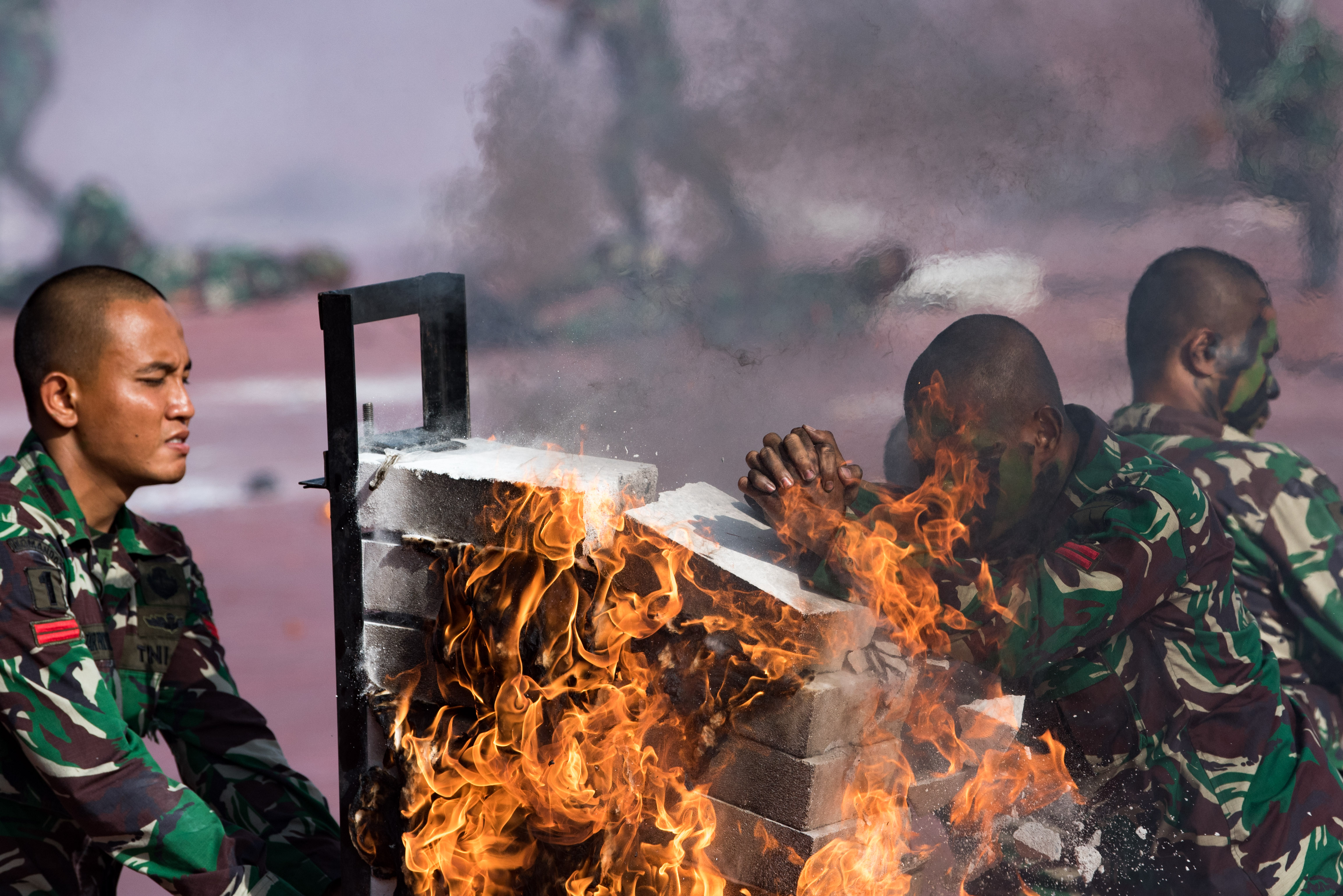 Members of the Indonesian Special Forces hold a demonstration in honor of Defense Secretary James N. Mattis before Mattis met with Indonesia's Chief of Defense Marshal Hadi Tjahjanto in Jakarta, Indonesia on Jan. 24, 2018. (DoD photo by Army Sgt. Amber I. Smith)